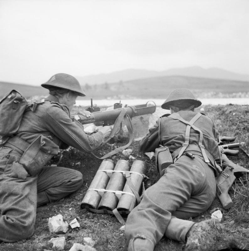 A PIAT (Projectile Infantry Anti-Tank) in action at a firing range in Tunisia, 19 February 1943. A PIAT in action at a firing range in Tunisia, 19 February 1943.